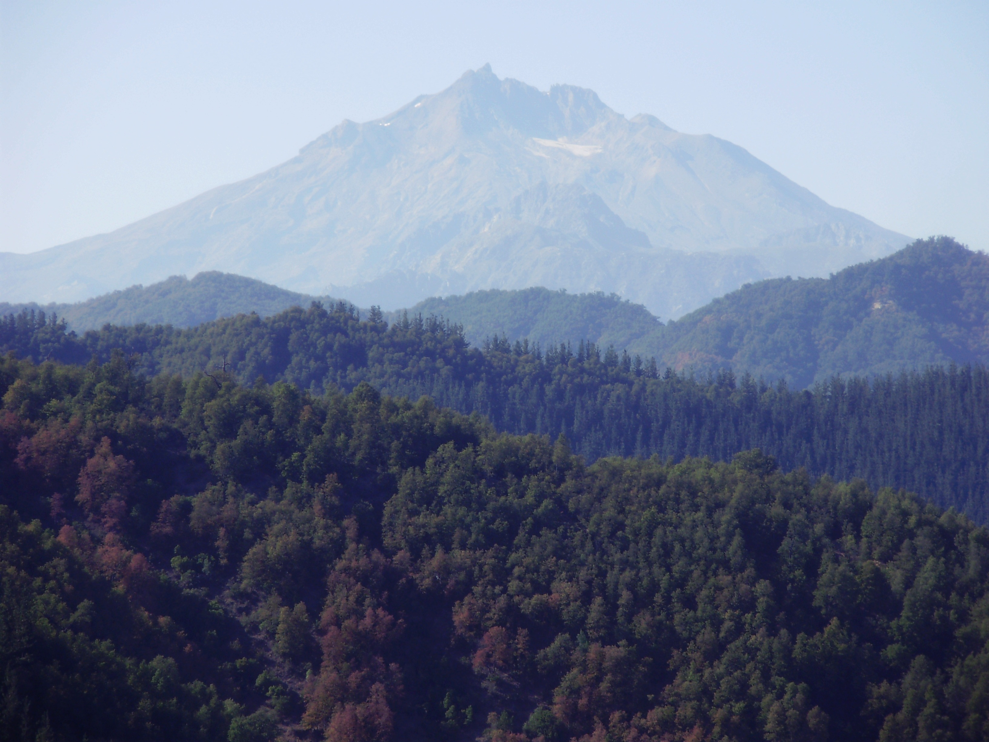 Nevados del Langaví Volcano taken